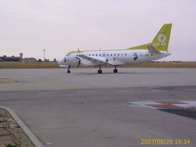 Saab 340 of Lagunair in the apron of Valladolid Airport